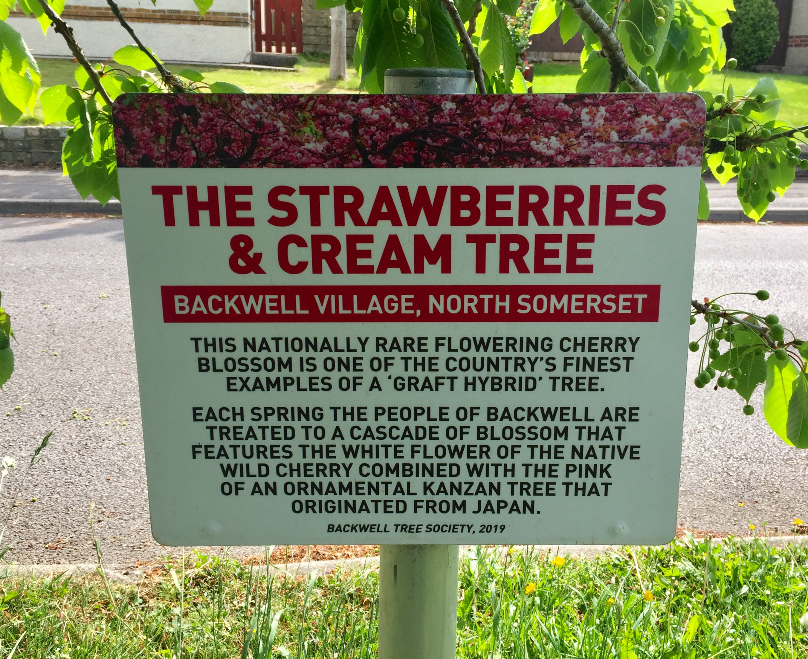 THE STRAWBERRIES AND CREAM TREE BACKWELL VILLAGE, NORTH SOMERSET THIS NATURALLY RARE FLOWERING CHERRY BLOSSOM IS ONE OF THE COUNTRY’S FINEST EXAMPLES OF A ‘GRAFT HYBRID’ TREE. EACH SPRING THE PEOPLE OF BACKWELL ARE TREATED TO A CASCADE OF BLOSSOM THAT FEATURES THE WHITE FLOWER OF THE NATIVE WILD CHERRY COMBINED WITH THE PINK OF AN ORNAMENTAL KANZAN TREE THAT ORIGINATED FROM JAPAN. BACKWELL TREE SOCIETY, 2019